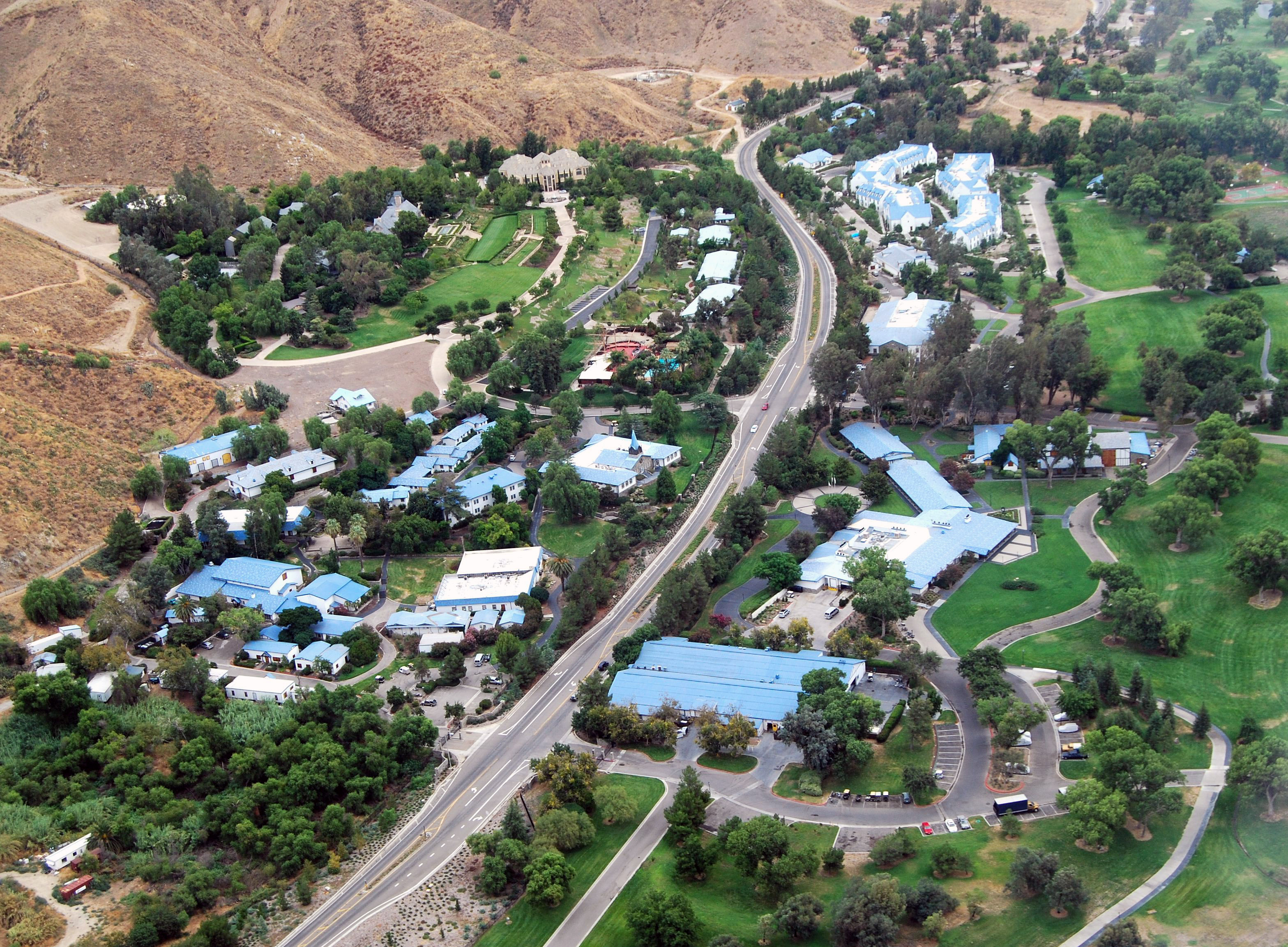 Aerial view of Gold Base from the west, showing the garage in the foreground, with Massacre Canyon Inn behind and the Staff Berthing buildings beyond, to the right of the highway. The buildings in the foreground on the left of the highway are mostly used for international management and staff training purposes.